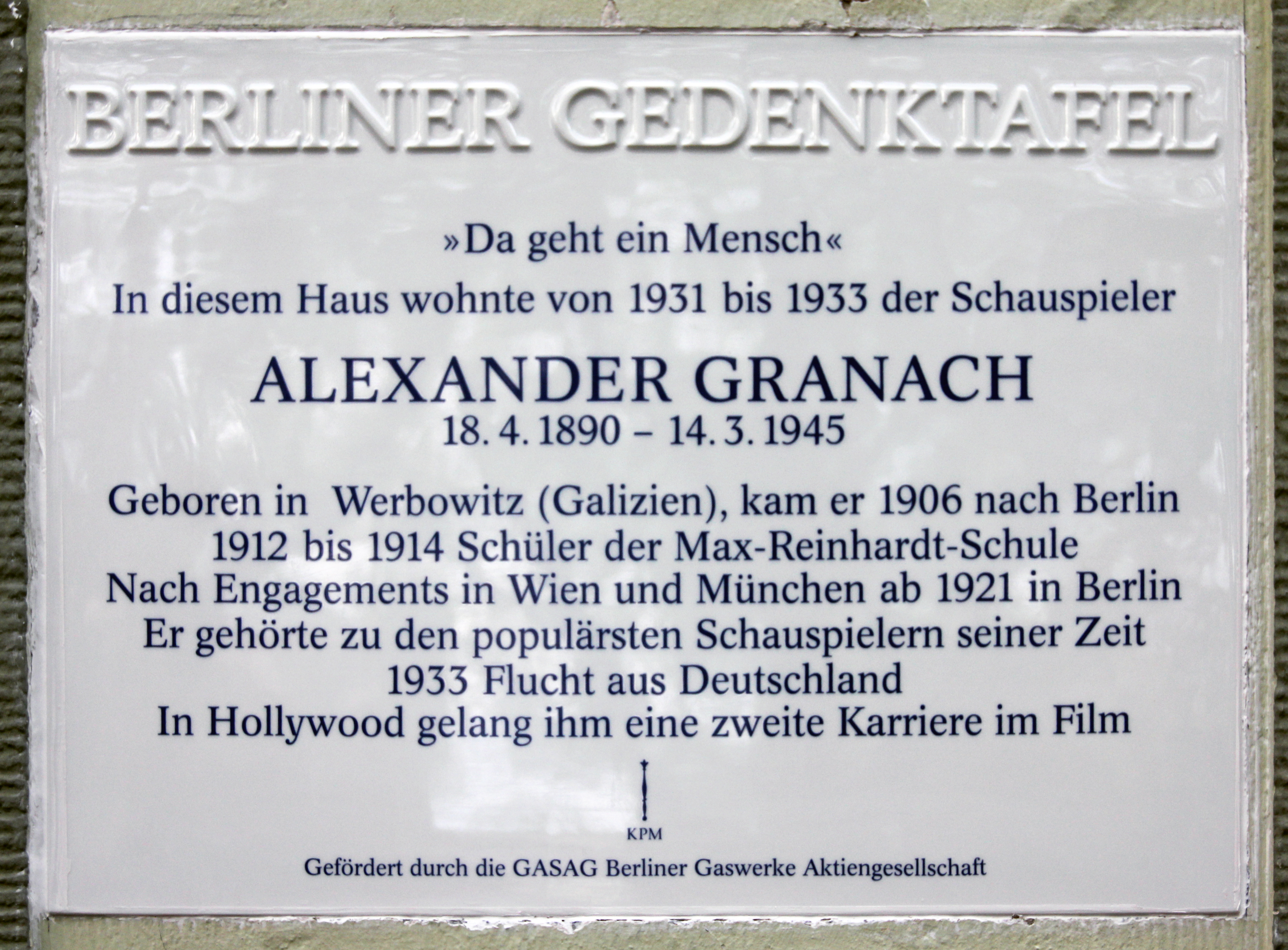 Berlin memorial plaque, Alexander Granach, Heiligendammer Straße 17a, Berlin-Schmargendorf, Germany